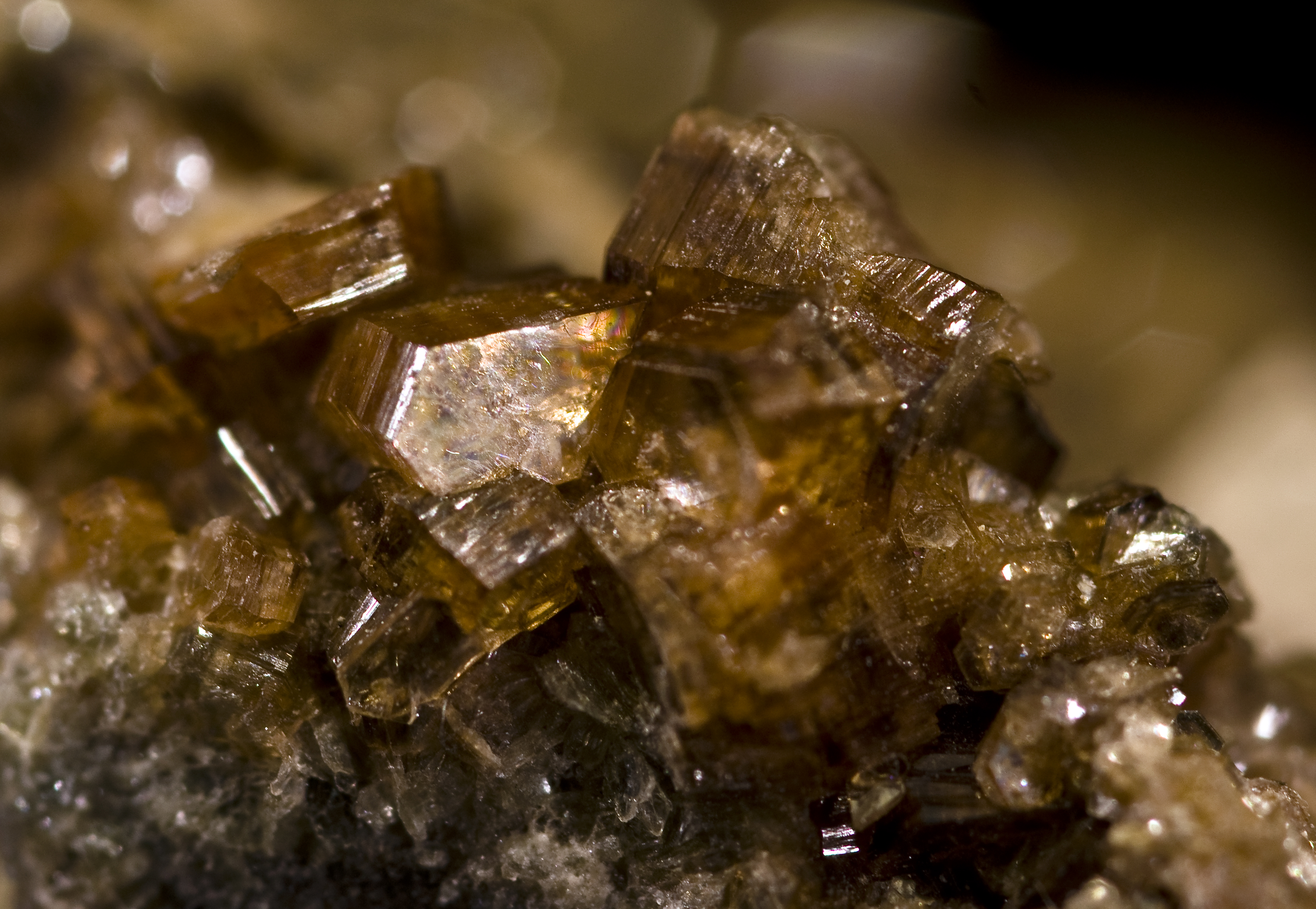 Phlogopite Loaclity : San Vito quarry, San Vito, Ercolano, Monte Somma, Somma-Vesuvius Complex, Naples Province, Campania, Italy Size : (View2.5cm)